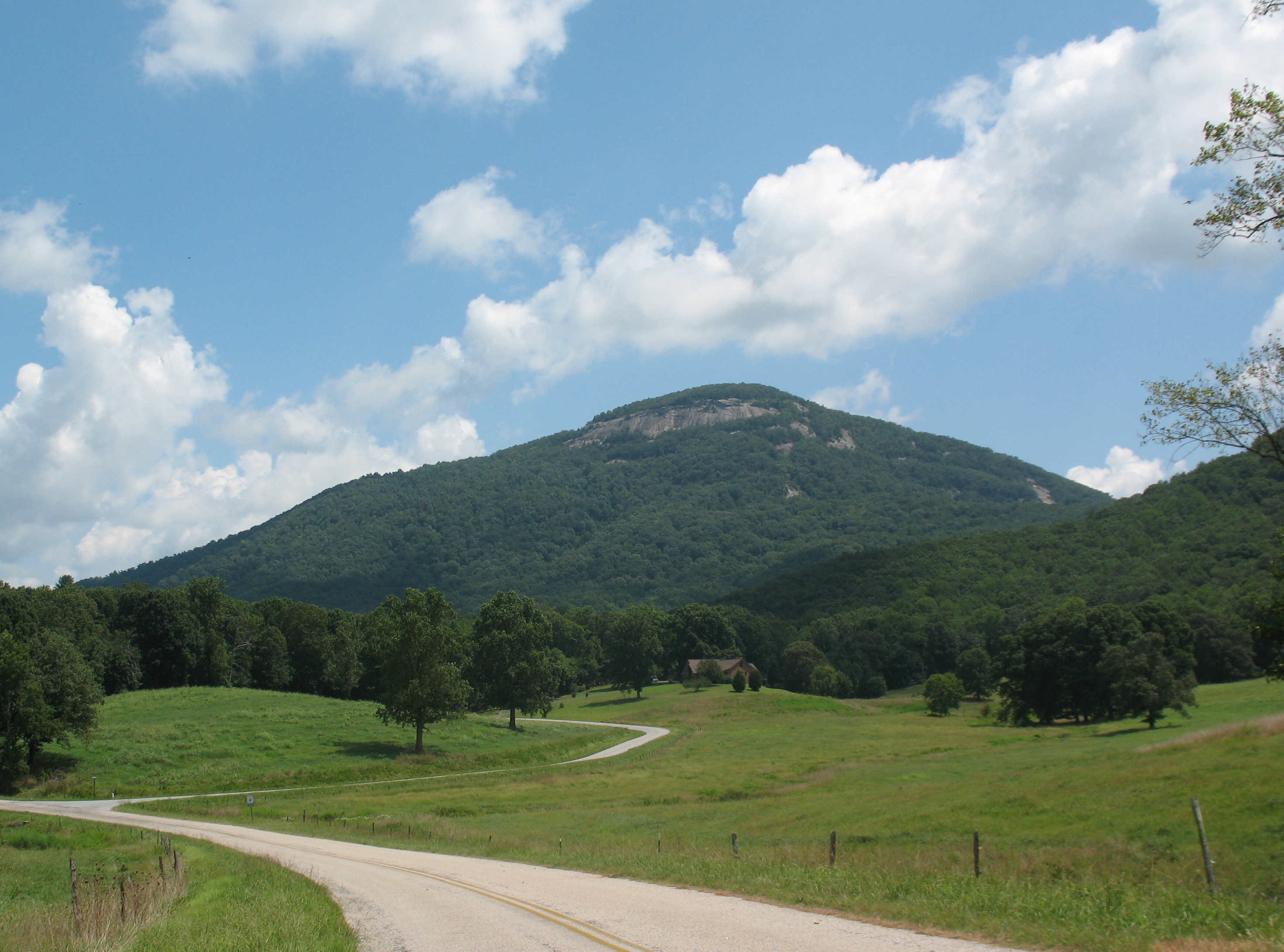 Photo of Mount Yonah (Yonah Mountain) taken from Chambers Road... in Cleveland, GA USA